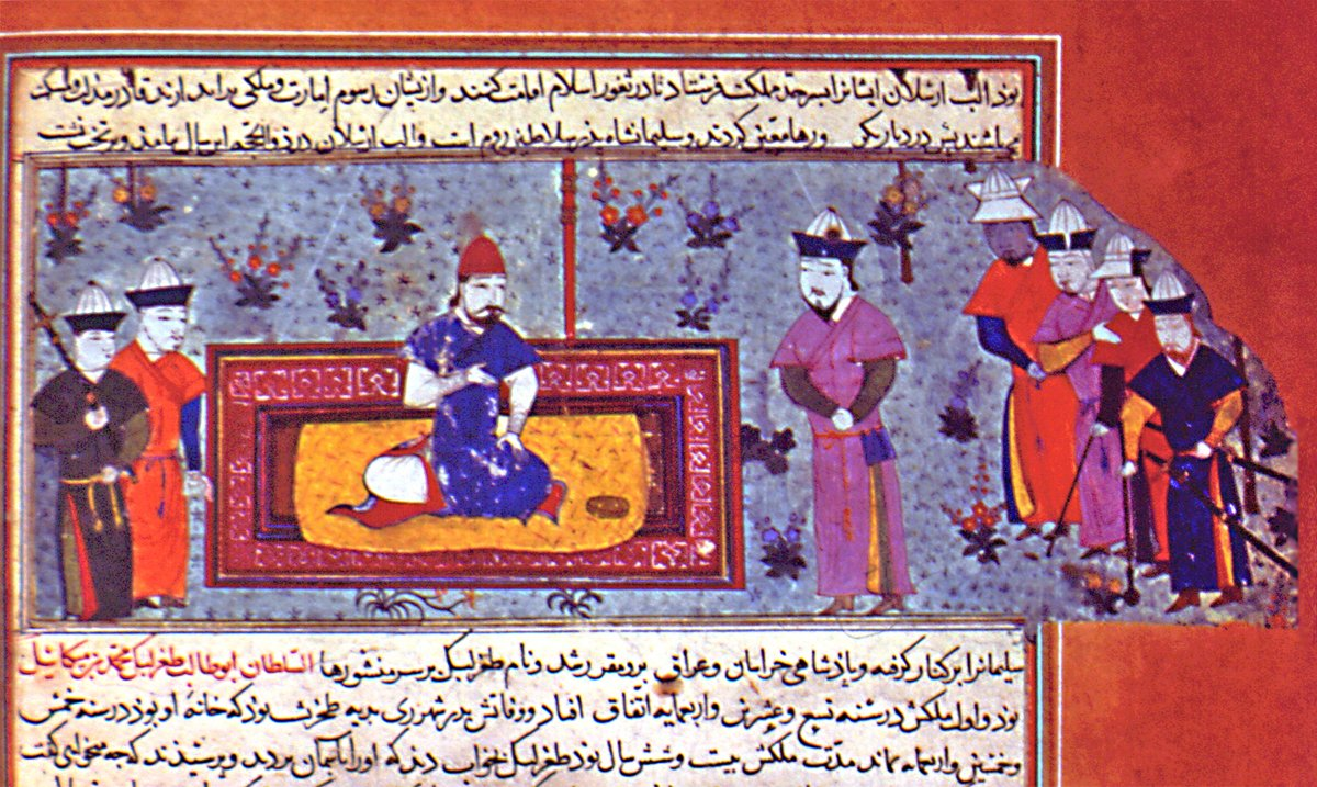 TR: Sultan Alp Arslan’ı Tasvir Eden Bir Minyatür.EN: Miniature depicting Sultan Alp Arslan, location: Topkapi Palace museum